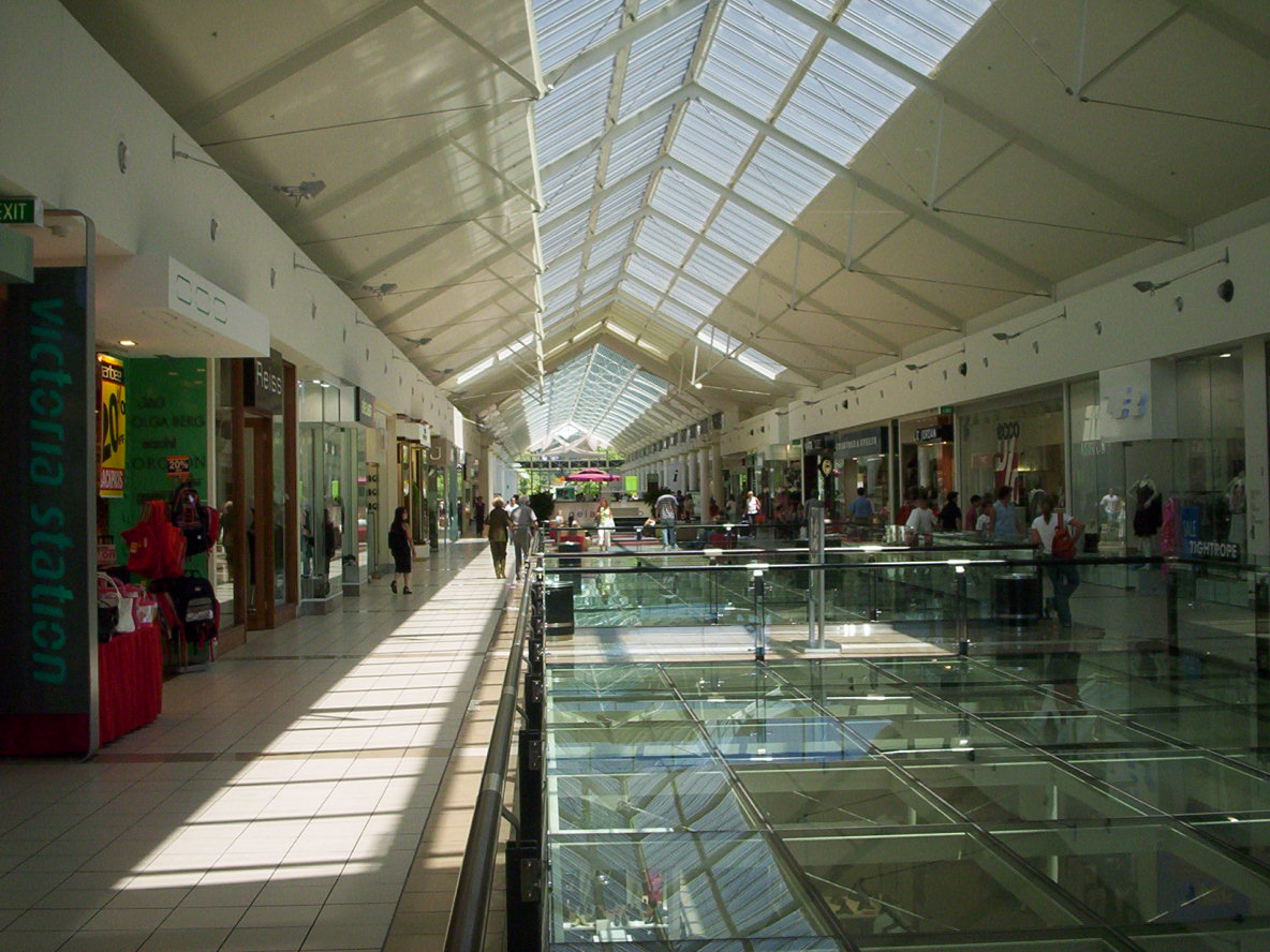 Inside the Canberra Centre. I took the photo Cfitzart 06:16, 23 August 2005 (UTC)